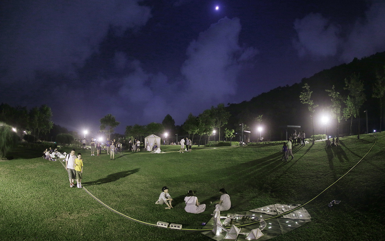 Project by Kingsley Ng